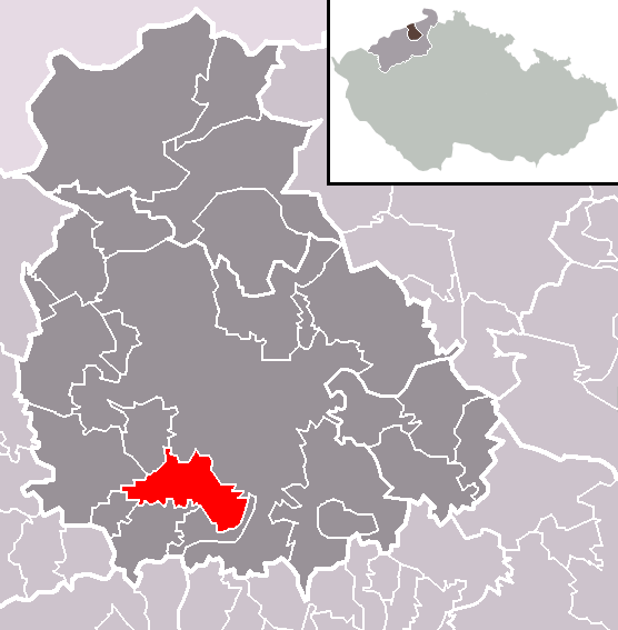 Location of Stebno municipality within Ústí nad Labem District and administrative area of Ústí nad Labem as a Municipality with Extended Competence.